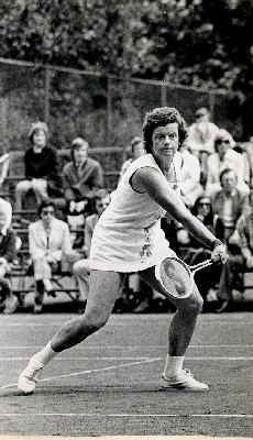 Betty Stöve, Dutch tennisplayer